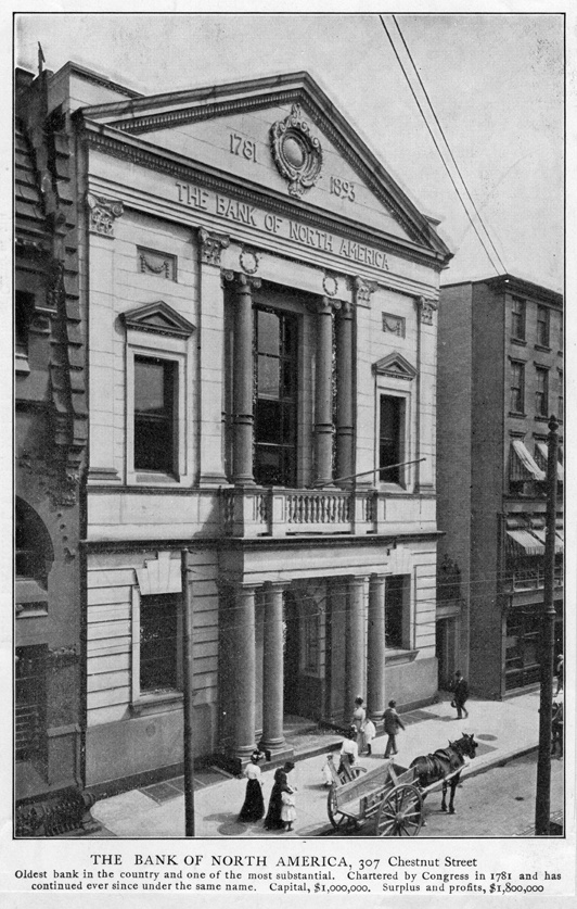 Photograph of the Bank of North America. Inscription reads "Oldest bank in the country and one of the most substantial. Chartered by Congress in 1781 and has continued ever since under the same name. Capital, $1,000,000. Surpluss and profits, $1,800,000."